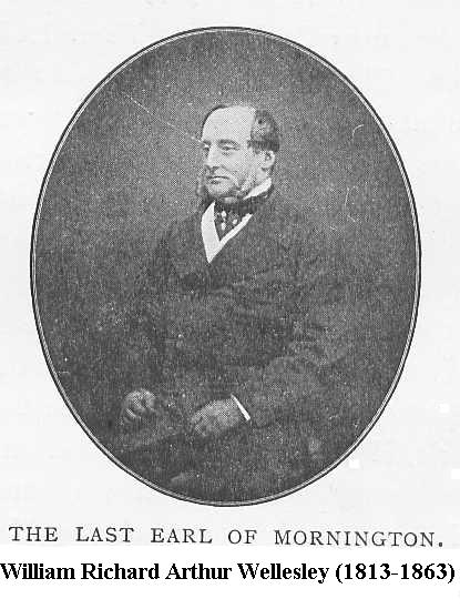 Source: Biography; The Lady Victoria Tylney Long Wellesley